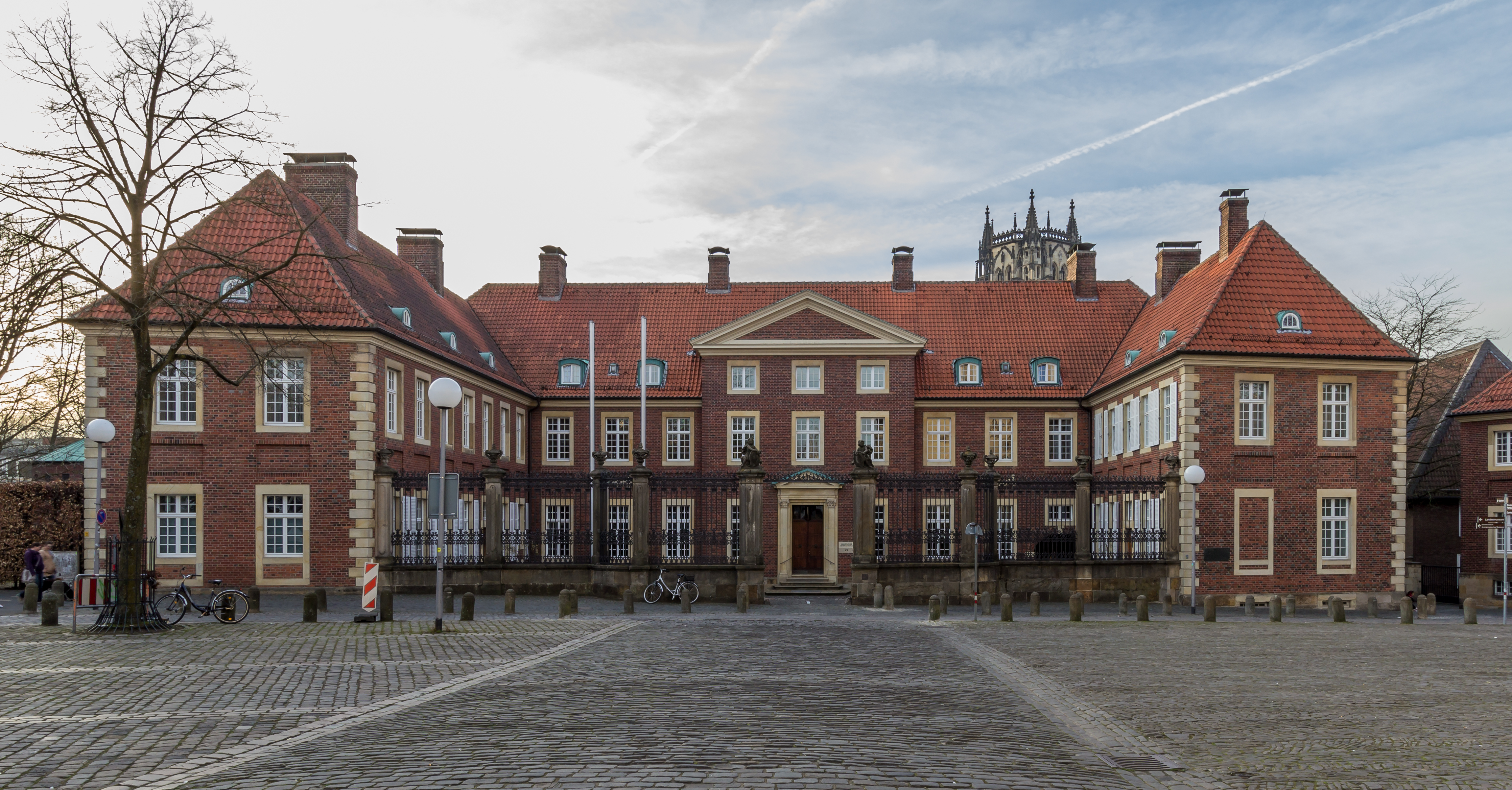 Episcopal palace/general vicariate at the Domplatz, Münster, North Rhine-Westphalia, Germany